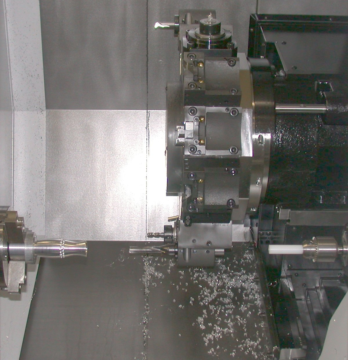 Photo showing (at image left) a chuck mounted workpiece, a small aluminium vase, in the final stages of machining. The tools used to perform the task are mounted in the tool turret (at image right). The small radial holes in the vases' body were made by the milling attachment, which is visible in the tool turret at the top front position.